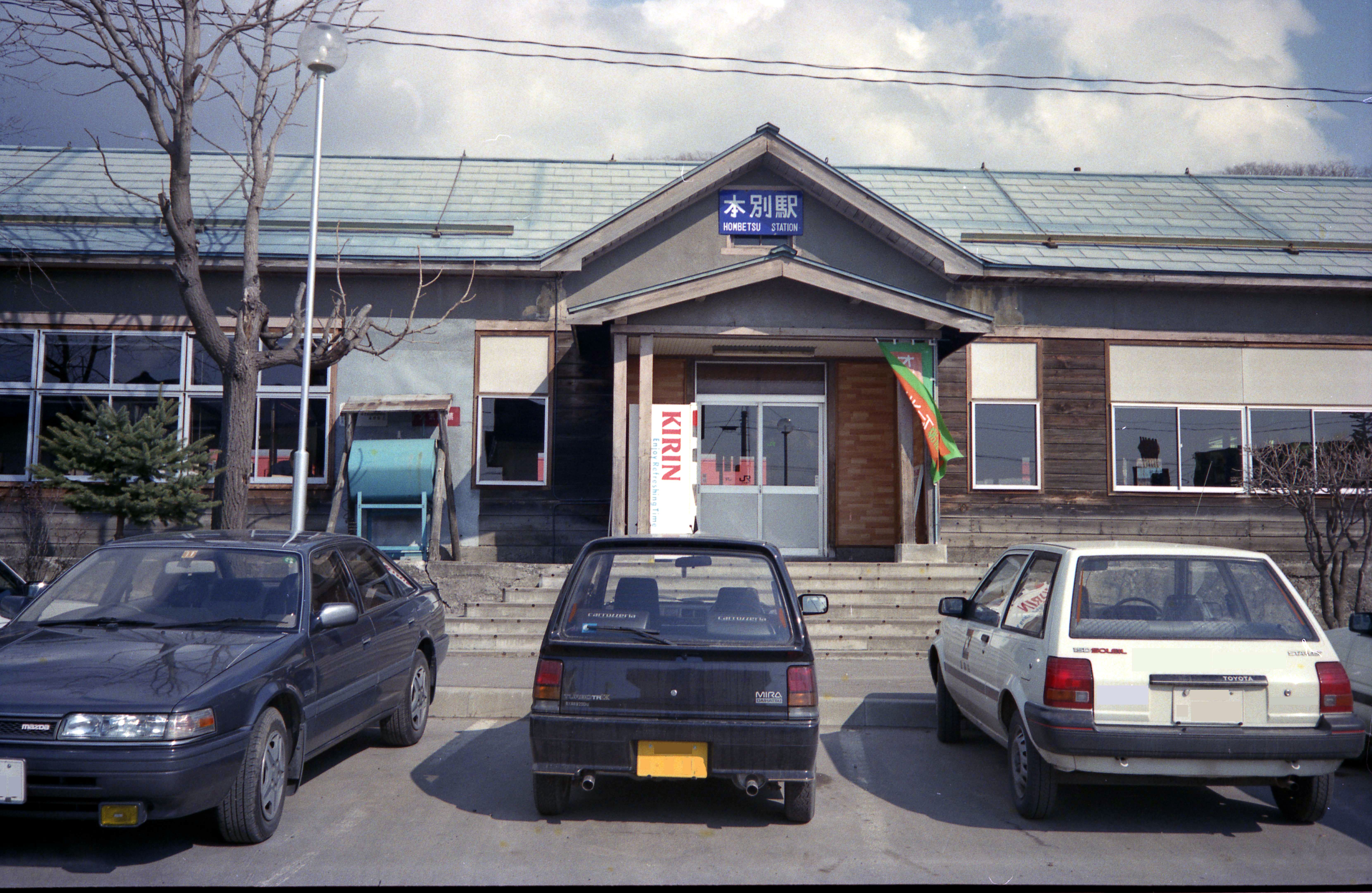 Honbetsu Station on JR Hokkaido Chihoku Line (before abolished)